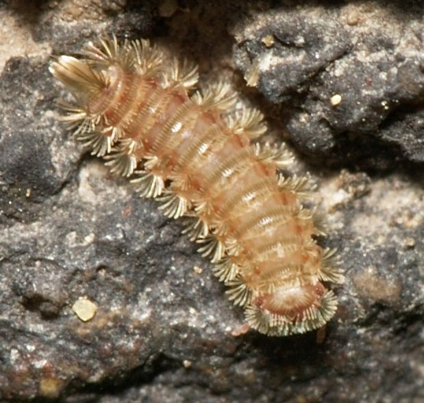 Polyxenus lagurus (length c. 2 mm) from a brick wall in a park in Cologne, Germany.